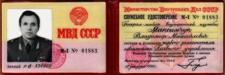 Identity cards of the Deputy head of the Main Department in the Ministry of internal Affairs of the USSR